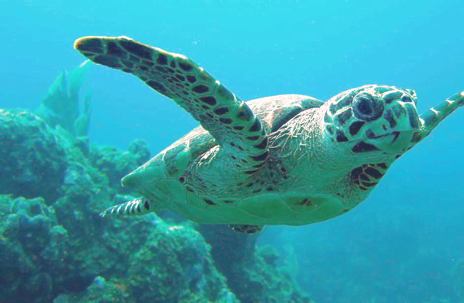 Hawskbill Turtle. Hawskbill Turtle photographed during a dive off Ginger Island, British Virgin Islands.